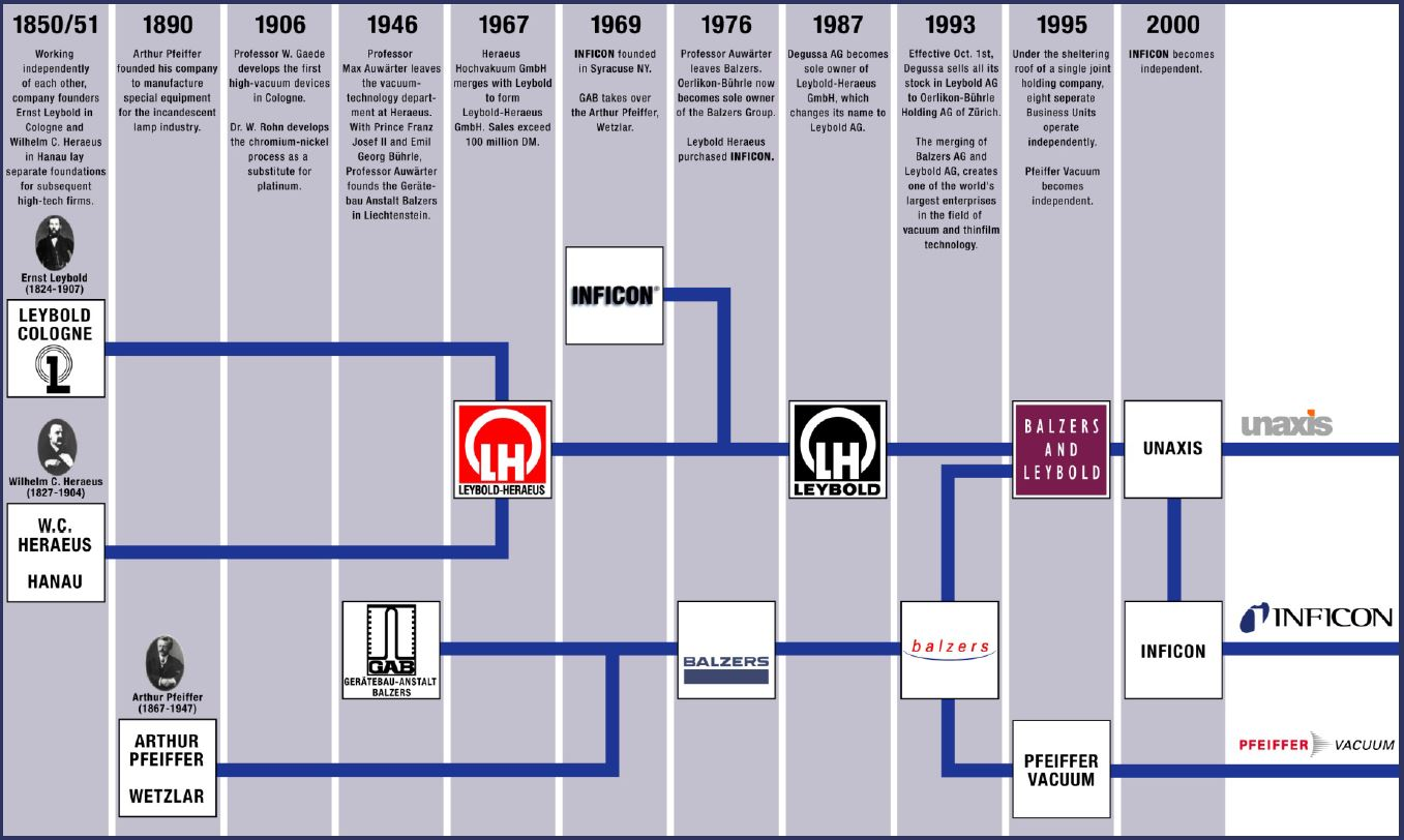 History timeline image for INFICON until the year 2000.